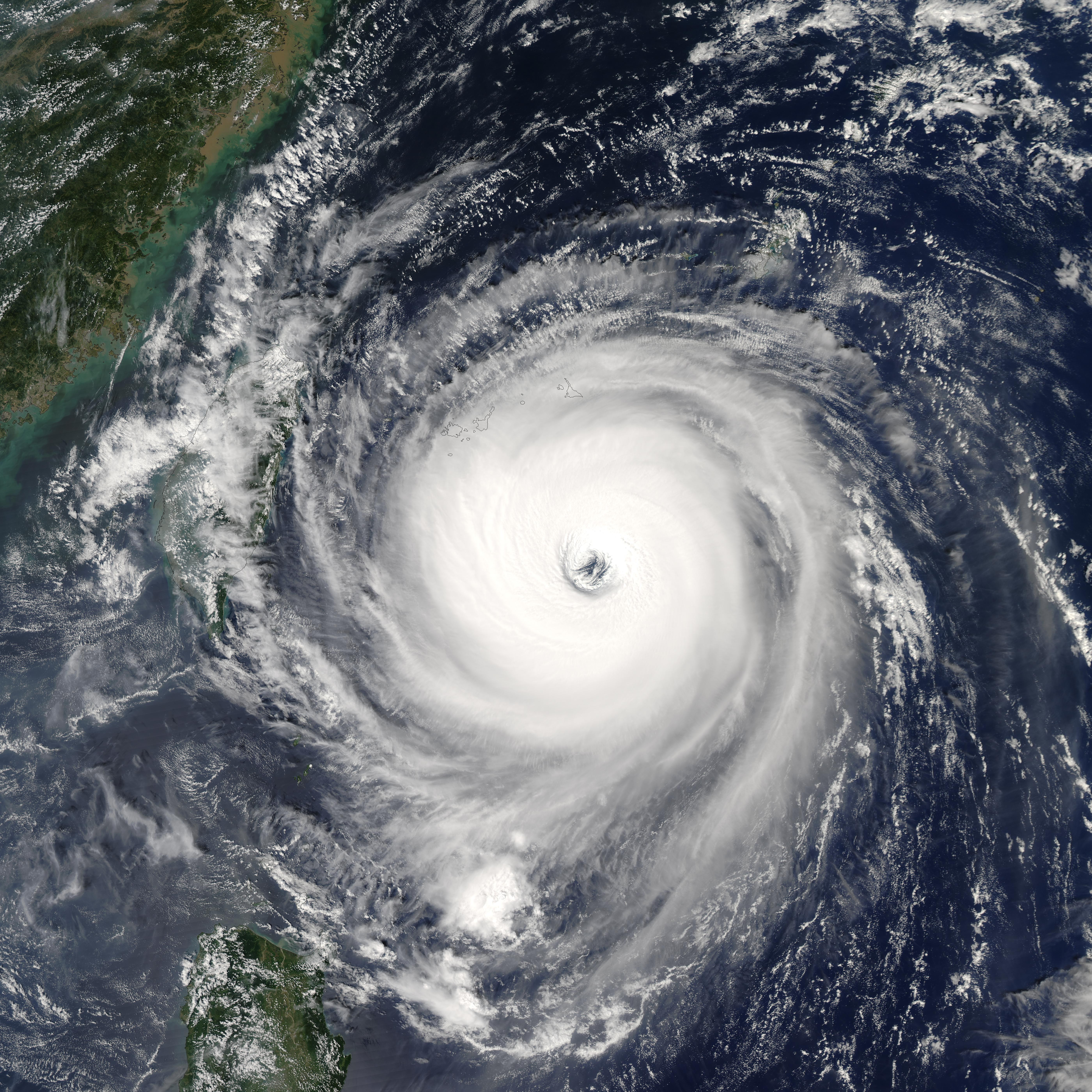 Longwang means Dragon King (the God of Rain) in Chinese. Typhoon Longwang was living up to its namesake when the Moderate Resolution Imaging Spectroradiometer (MODIS) on NASA’s Aqua satellite captured this image at 2:05 p.m. local time, on October 1, 2005. At that time, Longwang had peak sustained winds of 230 kilometers per hour (145 miles per hour), slightly less than the peak winds two days earlier, a pattern that suggests that Longwang had reached a stable state and was no longer gaining strength. It also has a “closed eye” (i.e., the eye of the storm has some cloud cover), another indicator of a storm no longer building additional power. In the days following this image, Longwang cut directly across the middle of Taiwan, and early in the morning on October 2, made a second landfall in mainland China as a severe storm. The large image provided above has a resolution of 250 meters per pixel. The image is available in additional resolutions from the MODIS Rapid Response Team.